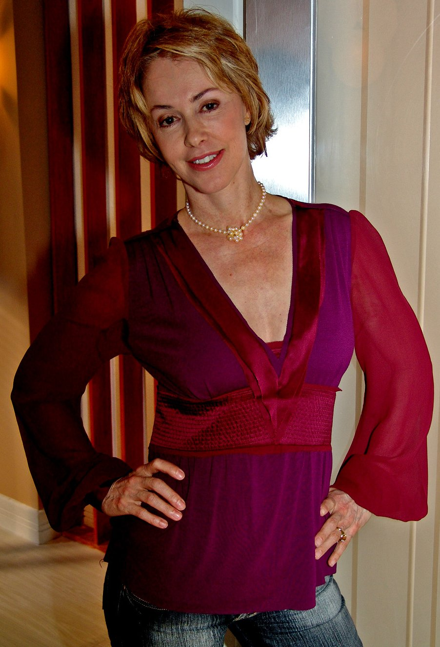 Brazilian actress Aldine Müller.